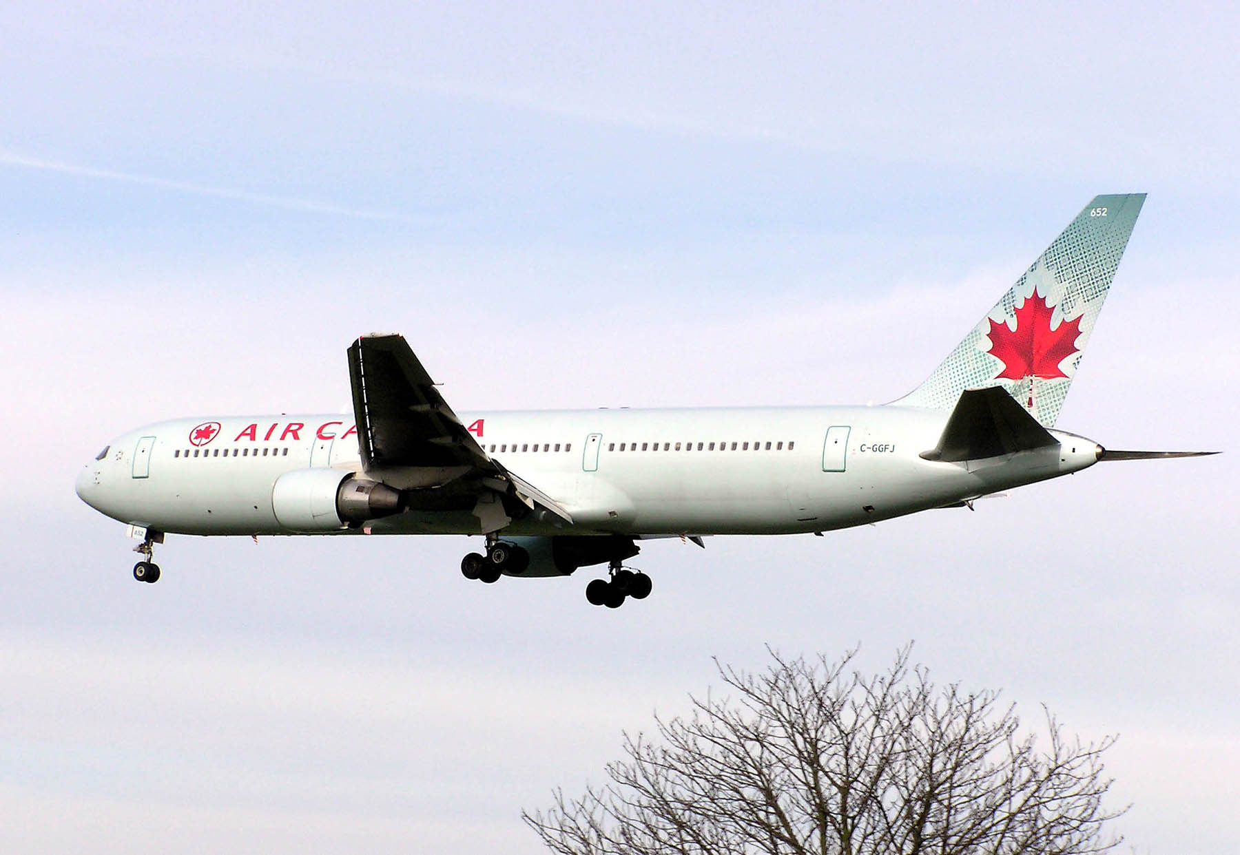 Air Canada Boeing 767-300 (C-GGFJ) landing at London (Heathrow) Airport, England.